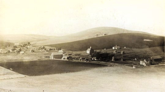 1908 Photograph of Boyd, unknown photographer, from the collection of Inez R. Gilhousen, held by the Gilhousen Family Association. Digital file (c)2005 GFA with permission to distribute freely per GFDL. Notification of use, attribution and linkback requested, but not required.